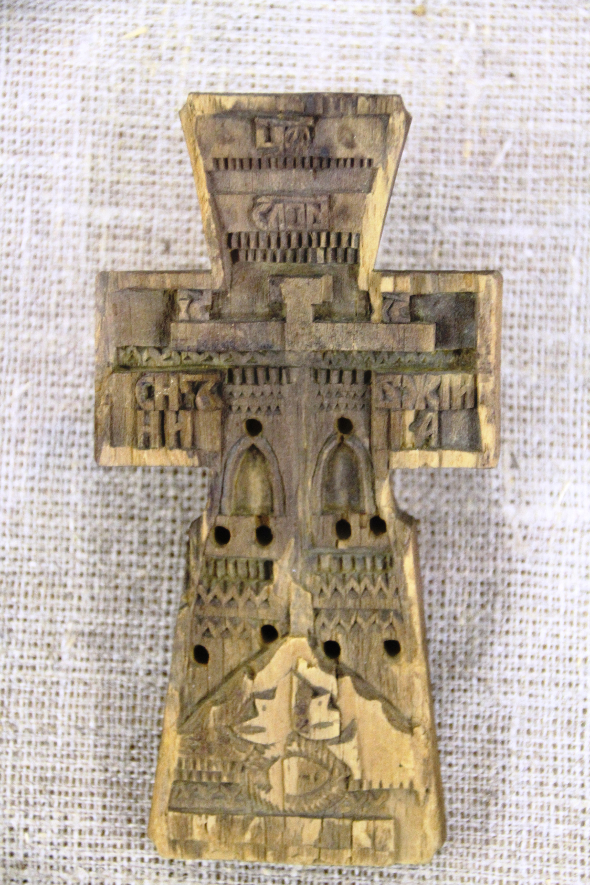 Pomor russian engraved 16th century cross relic, Svalbard. Exhibit object at Barentsburg Museum, Spitsbergen.